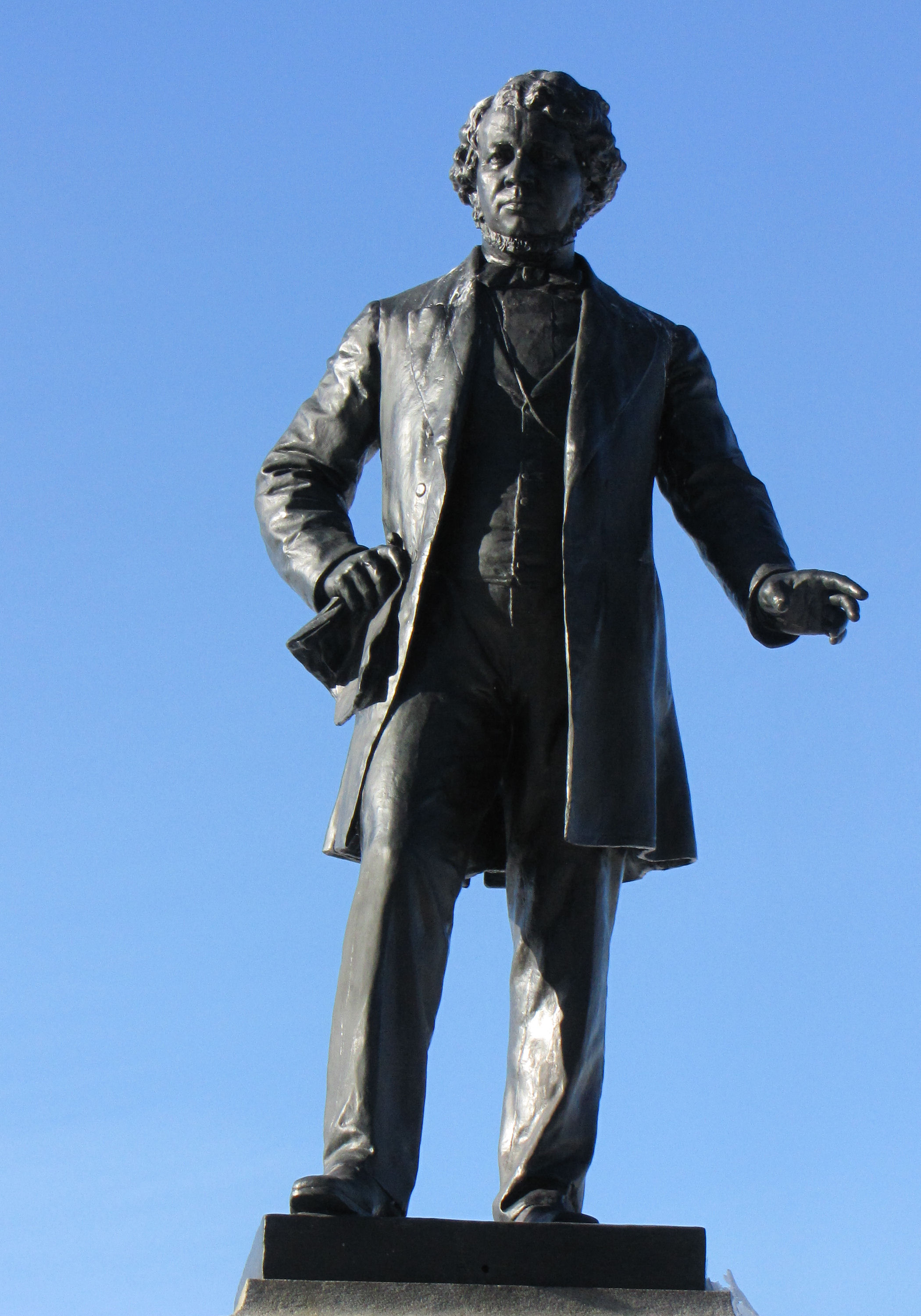 Thomas D'Arcy McGee (1825-1868) statute, Parliament Hill, Ottawa, Ontario, Canada